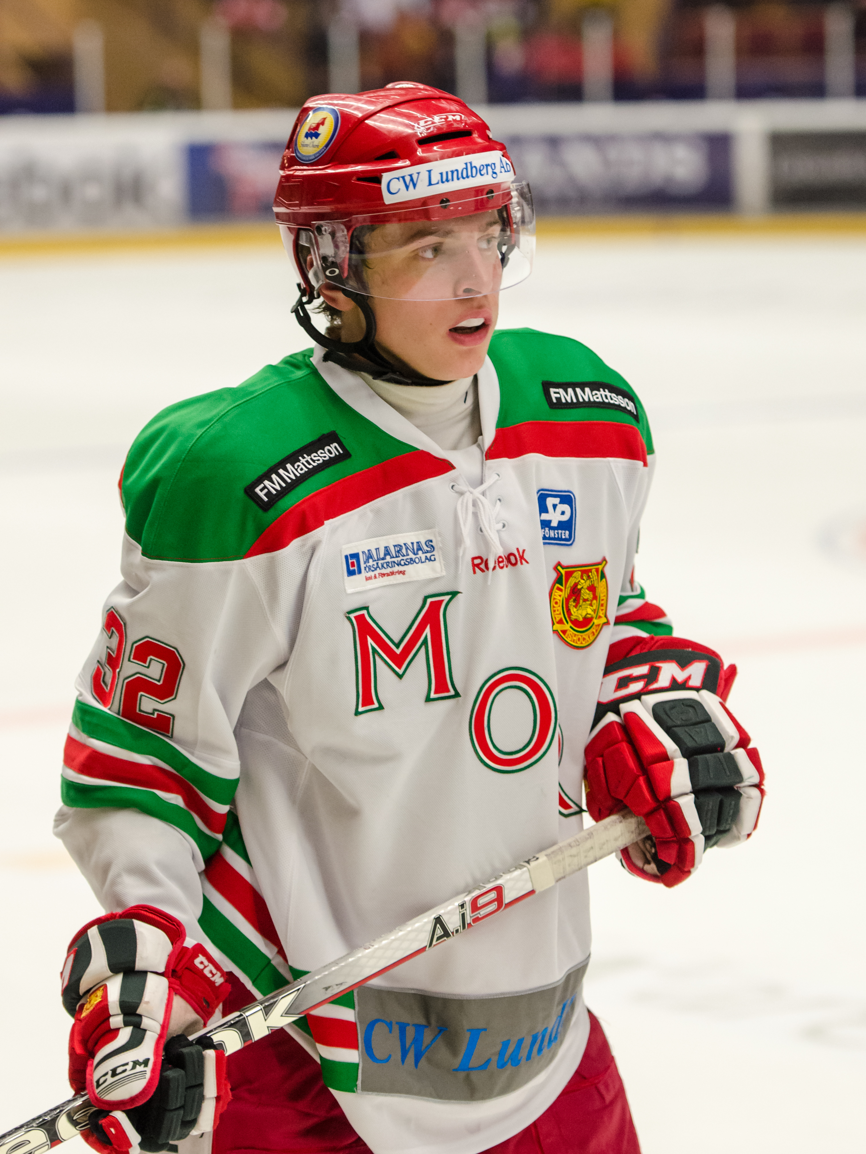 Lukas Bengtsson playing for Mora IK in Hockeyallsvenskan (Swedish second league) against Leksands IF 2012-12-29.